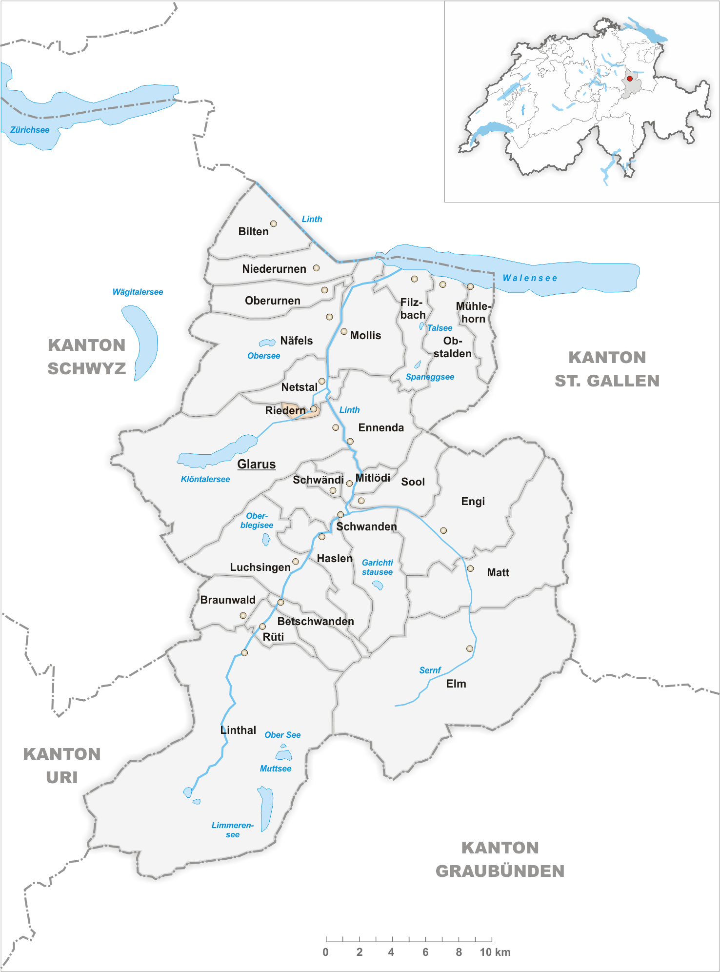 Municipality Riedern